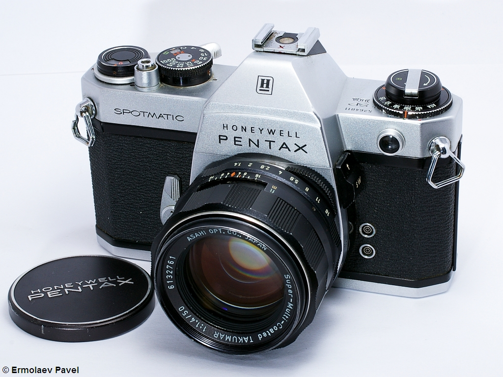 SLR-camera Asahi Pentax SP IIa